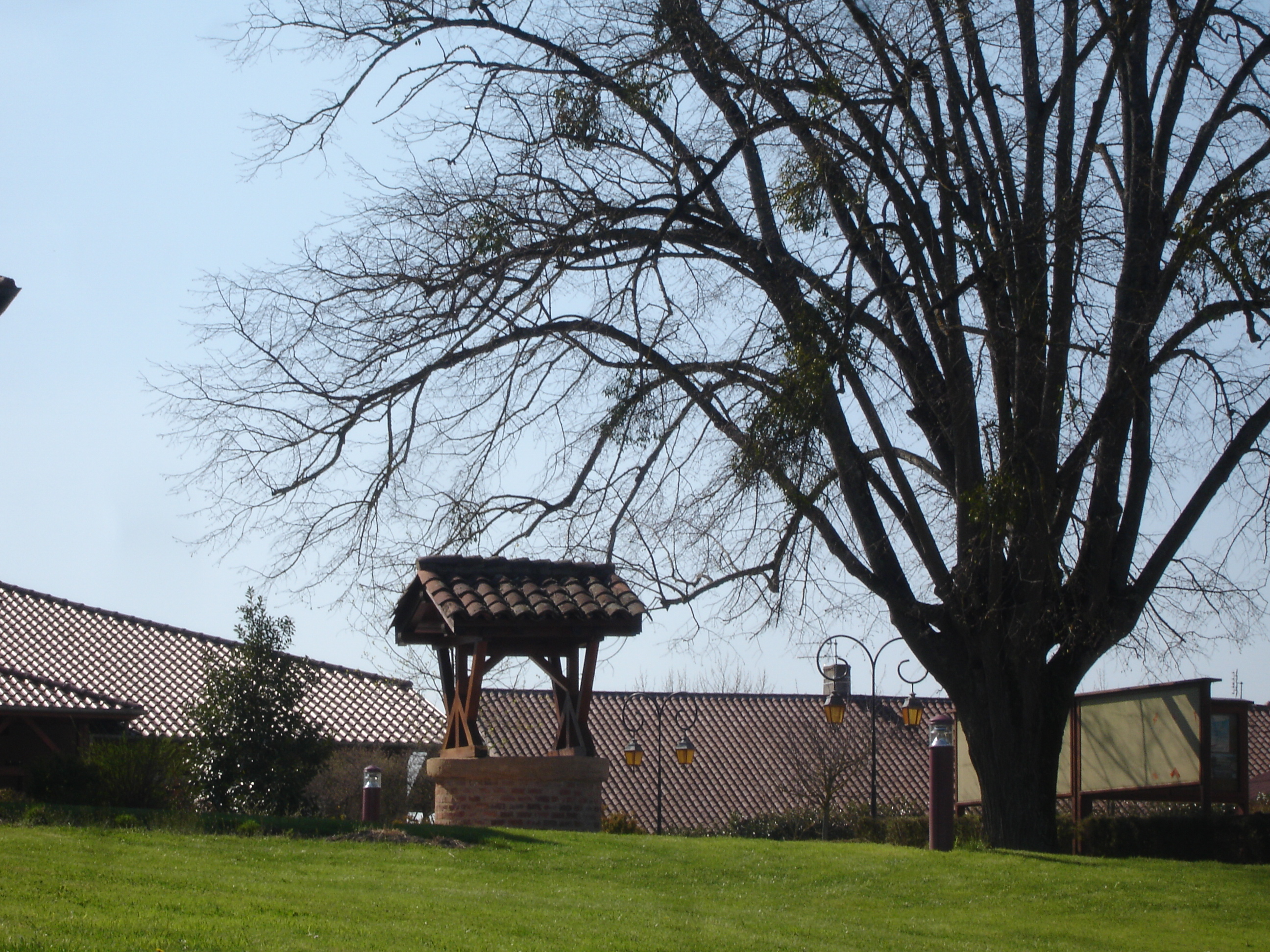 Jayat (Ain) : Puits vers la mairie